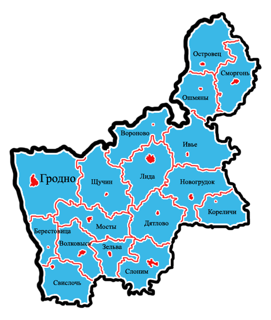 Map of Grodno Oblast, Russian Names.